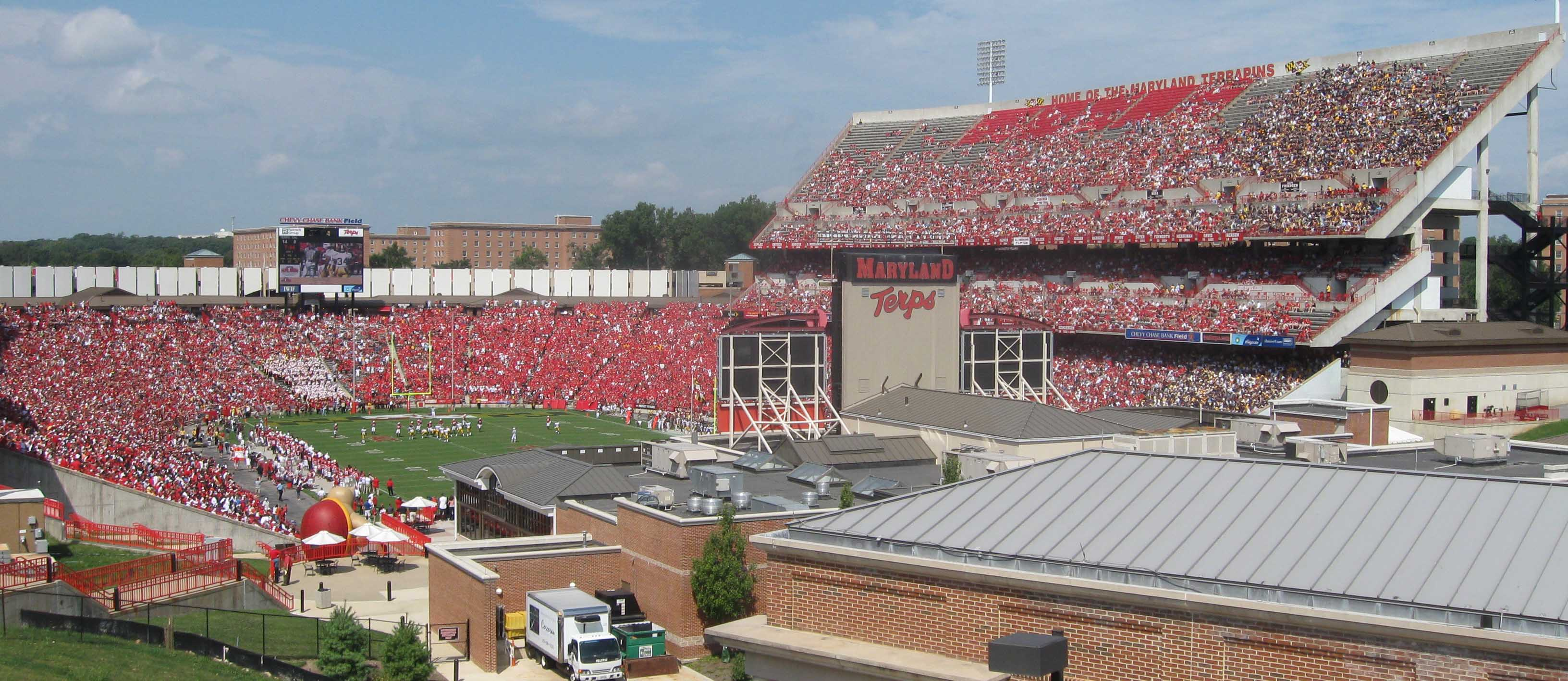 Chevy Chase Field at Byrd Stadium at the University of Maryland College Park during the September 13, 2008, game between the Maryland Terrapins and the California Golden Bears.